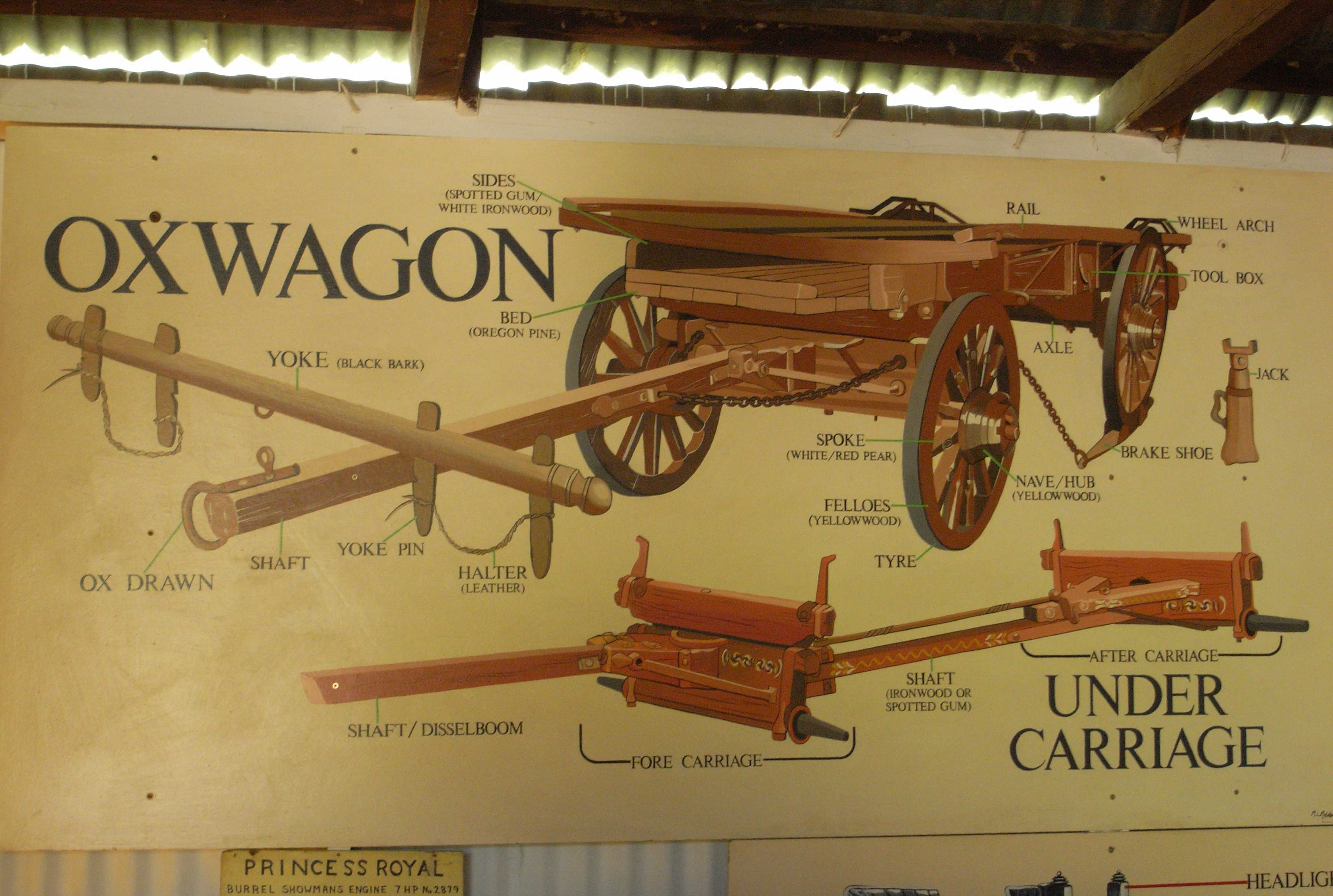 Old Thomas River Village, oxwagon information chart (Eastern Cape, South Africa)